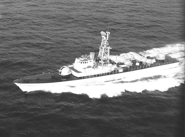 Areal view of INS Keshet during work up in the Eastern Mediterranean